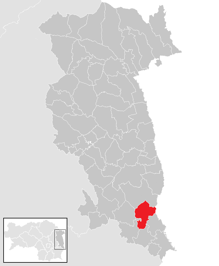 district Hartberg-Fürstenfeld